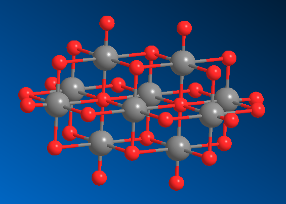 approxiamte 3D model of the decavanadate anion